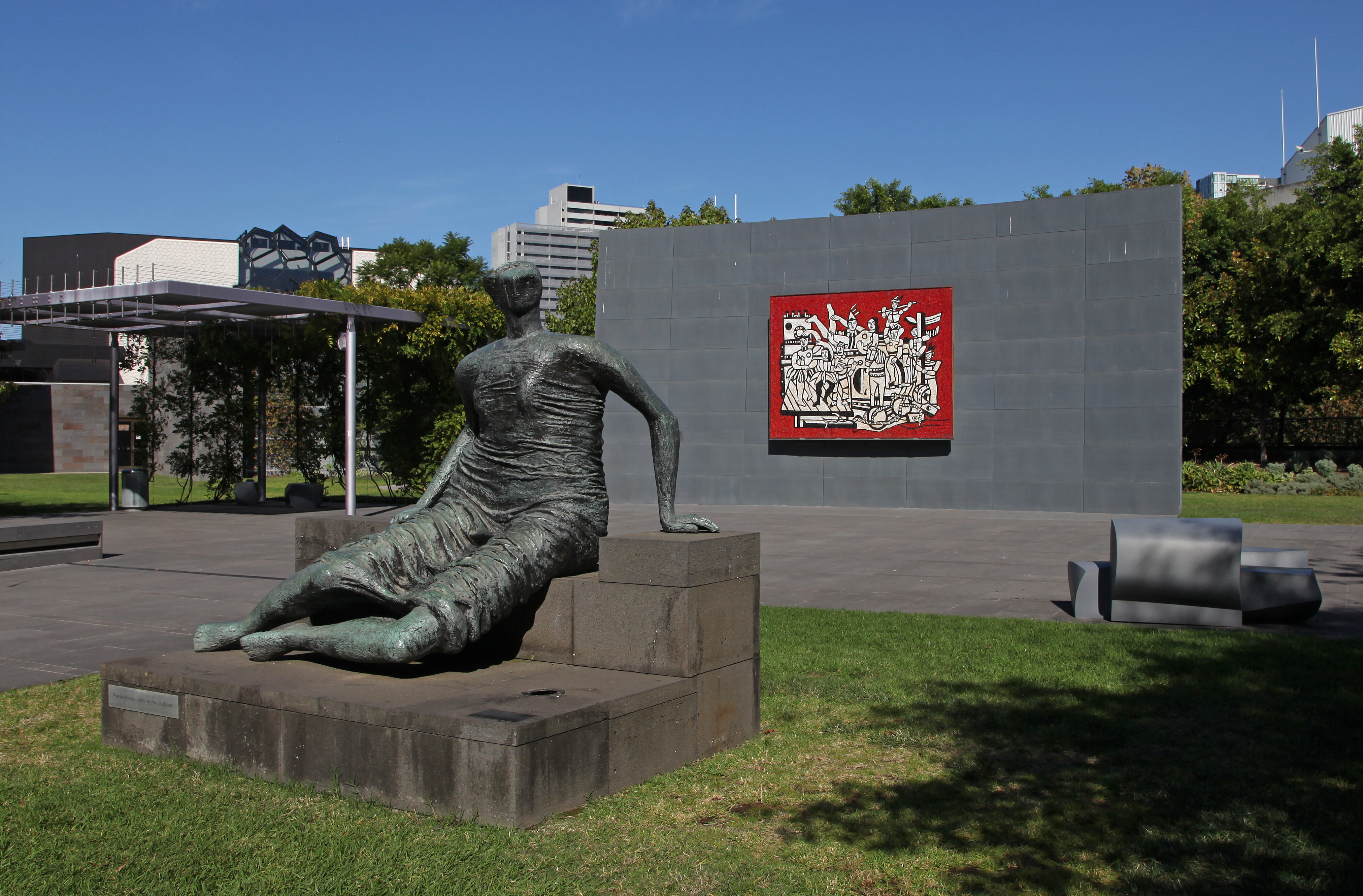 Henry Moore, English 1898-1986 - Draped seated woman (1958 bronze) in Grimwade Gardens, National Gallery of Victoria (NGV)